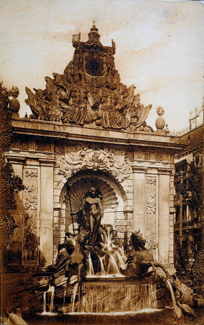 Amfitryta Monument in Stettin, subsisted from 1902 to 1932, old postcard?